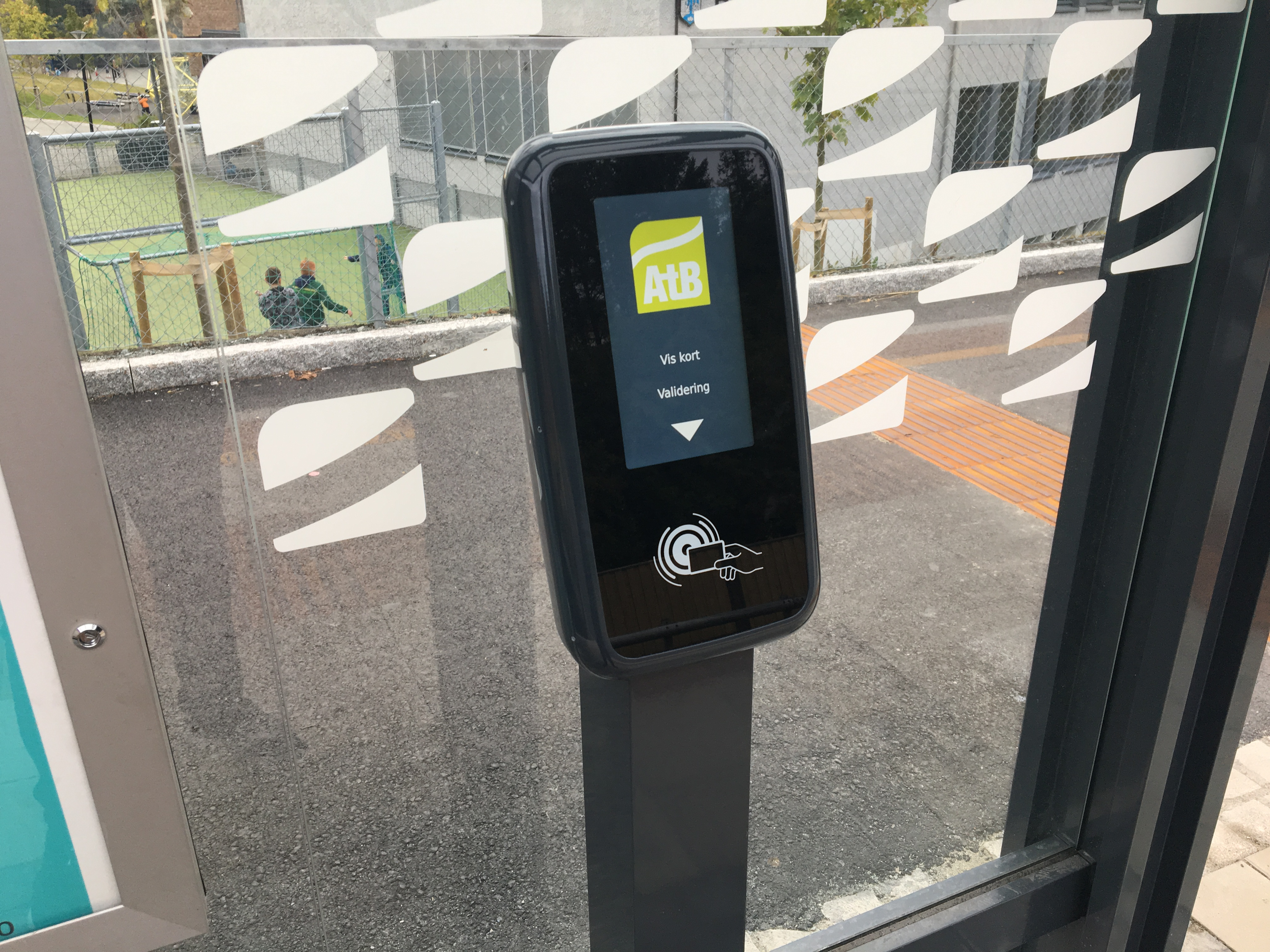 This is one of the many ticket scanners in Trondheim, Norway located at Byåsen Skole